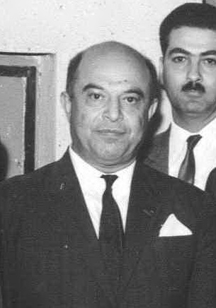 Nosratollah Kasemi